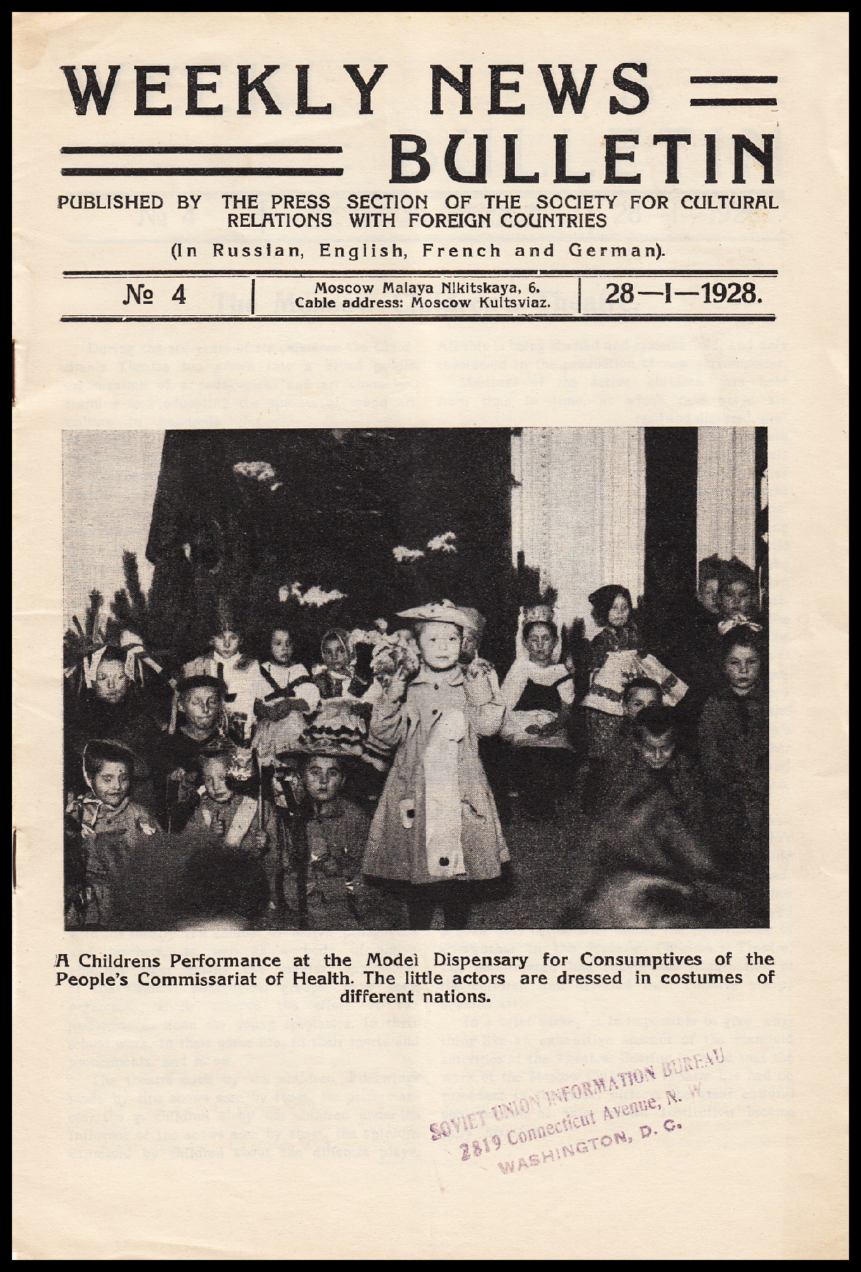 VOKS - weekly newsbulletin - 280128. Cover of the issue of Jan. 28, 1928, English edition. Bearing the rubberstamp of the Soviet Union Information Bureau, Washington, DC.